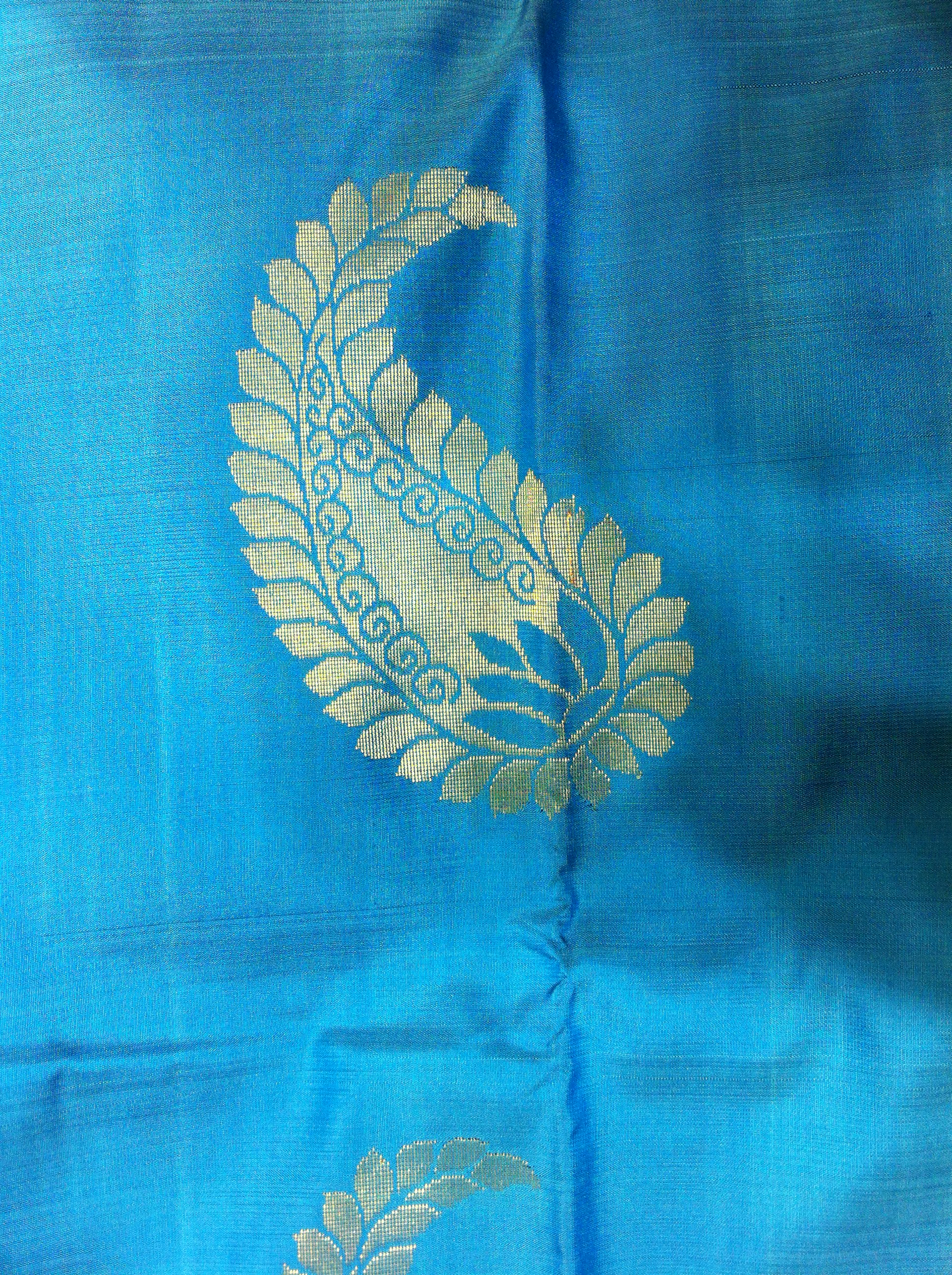 Mango Design in Kanchipuram Silk Saree